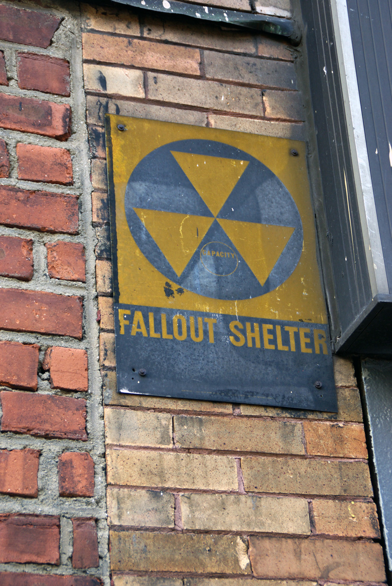 A sign for a fallout shelter in Chinatown, New York City.